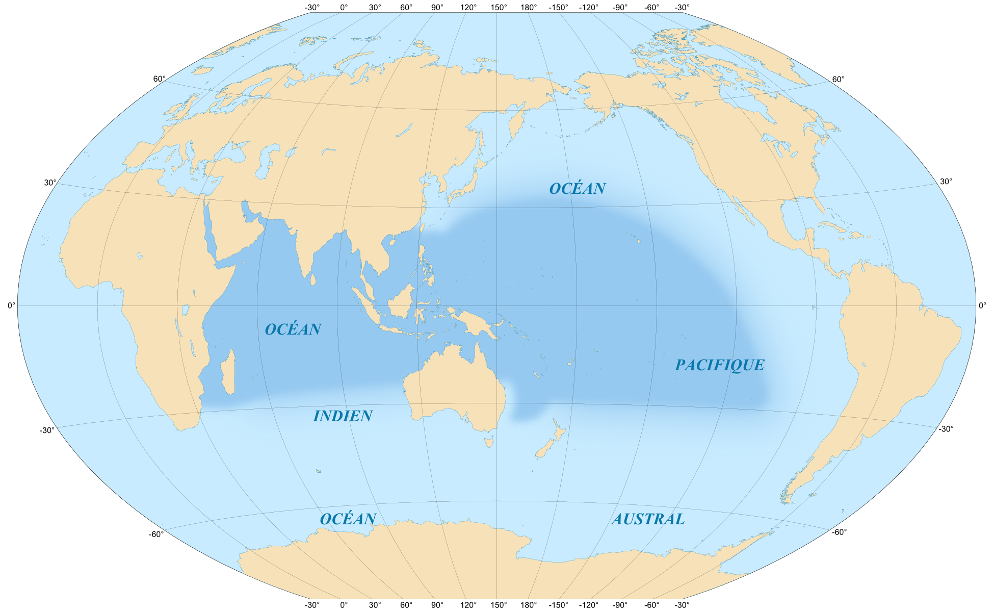 Map in French of the area covered by the Indo-Pacific biogeographic region.Scale : 1:5,000,000